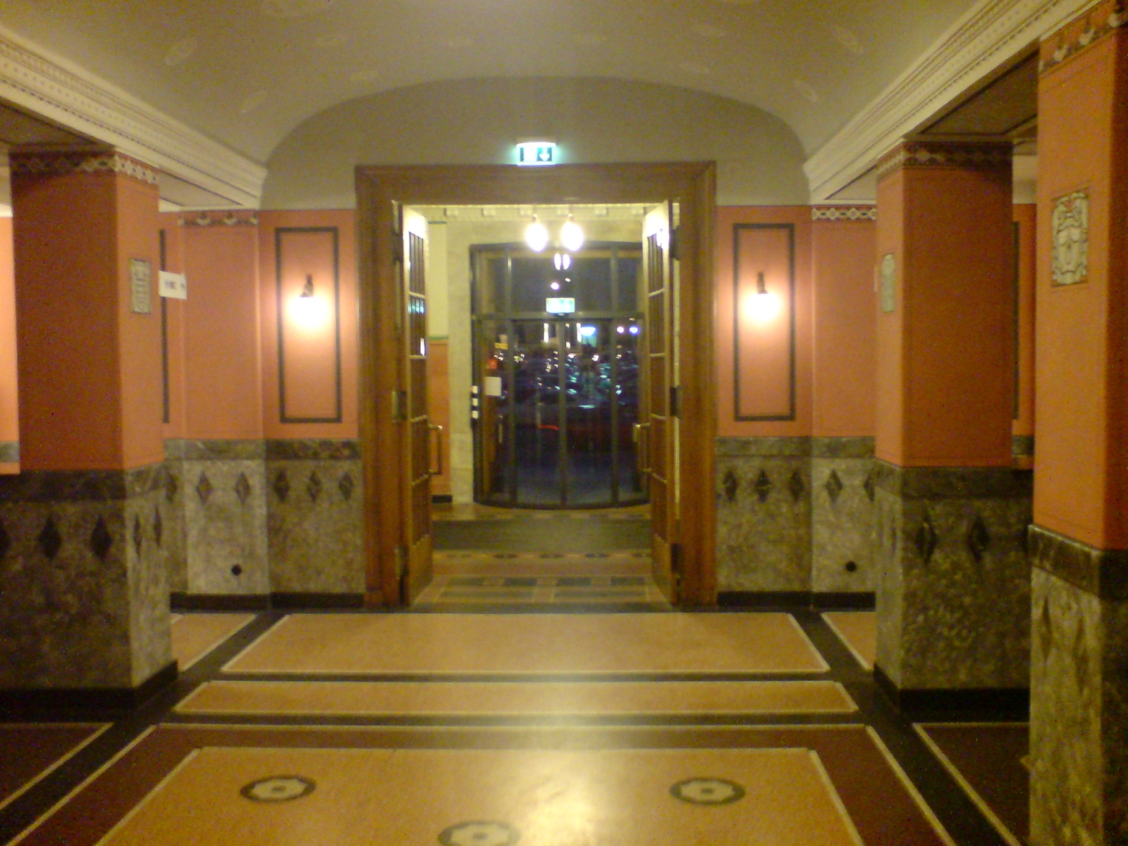 The interior of the Jugendstilbad in Darmstadt, Germany.